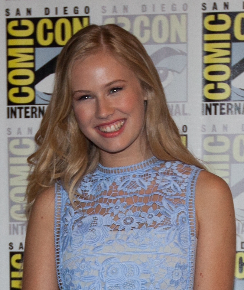 Danika Yarosh at the 2015 San Diego Comic Con International in San Diego, California.